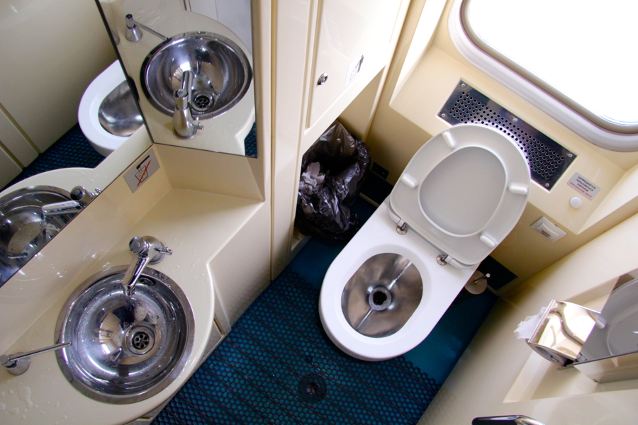 Moscow "Zhiguli" train toilet.